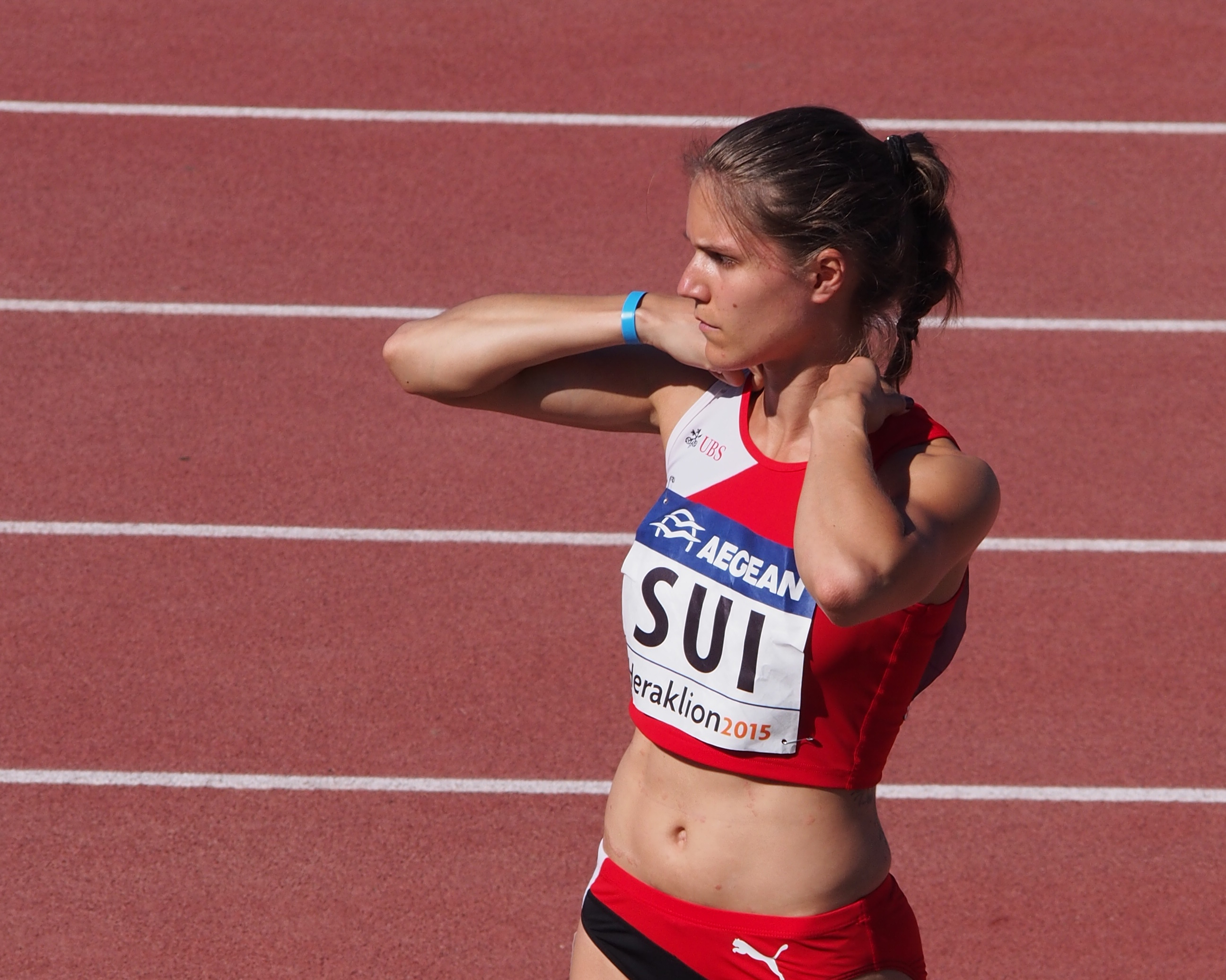 Robine Schürmann defore the beginning of the 400m Hurdles Women-Final, Heat 2 race, at 2015 European Team Championships First League..